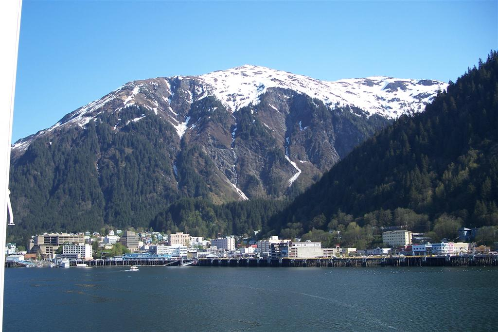 View of downtown Juneau, Alaska, as seen from a boat on the Gastineau Channel